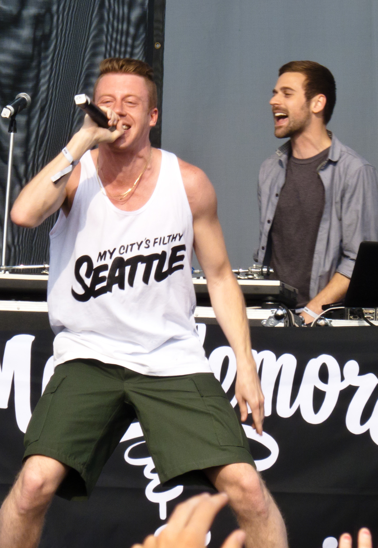 Macklemore & Ryan Lewis performing at Sasquatch 2011